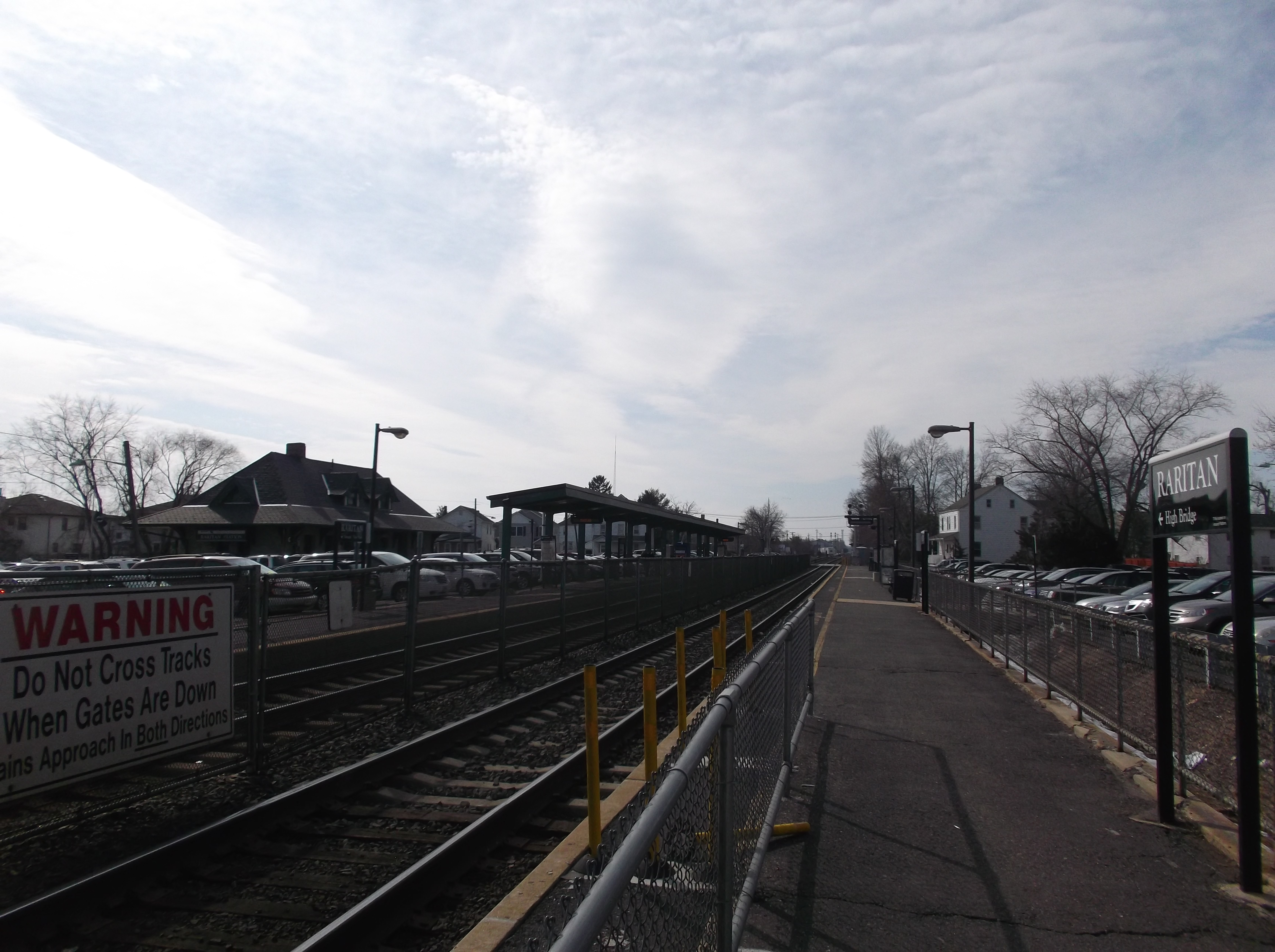 The Raritan station of New Jersey Transit in Raritan, New Jersey in March 2014.